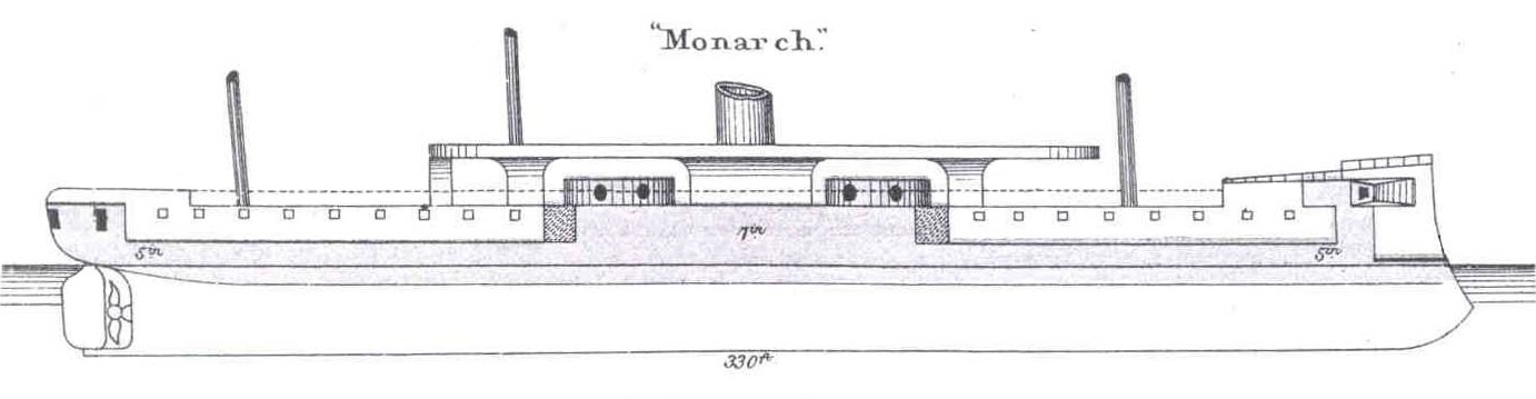 Side view of HMS Monarch (1868)